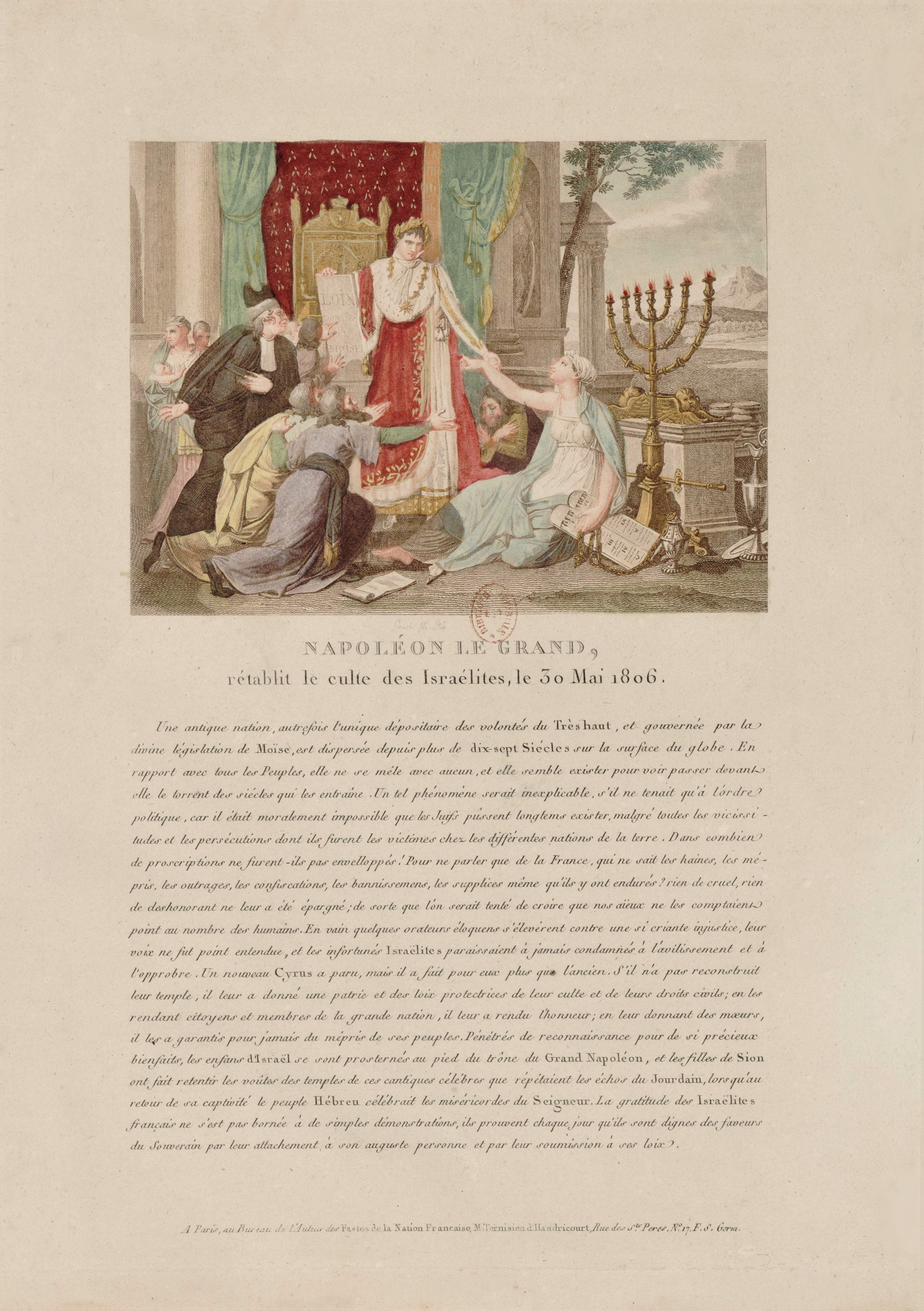 1806 print, in which Napoleon grants the Jews freedom to worship, represented by the hand given to the Jewish woman.